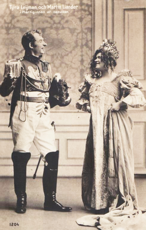 John Liander as Jansén and Tyra Leijman-Uppström (1878-1951) as Lotta Jansén in the summer revue Hertiginnan av Danviken